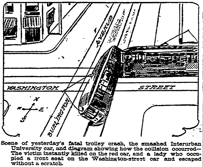 Drawing showing streetcar crash in Los Angeles, California, on December 1, 1905, in which Councilman James Potter Davenport was killed.